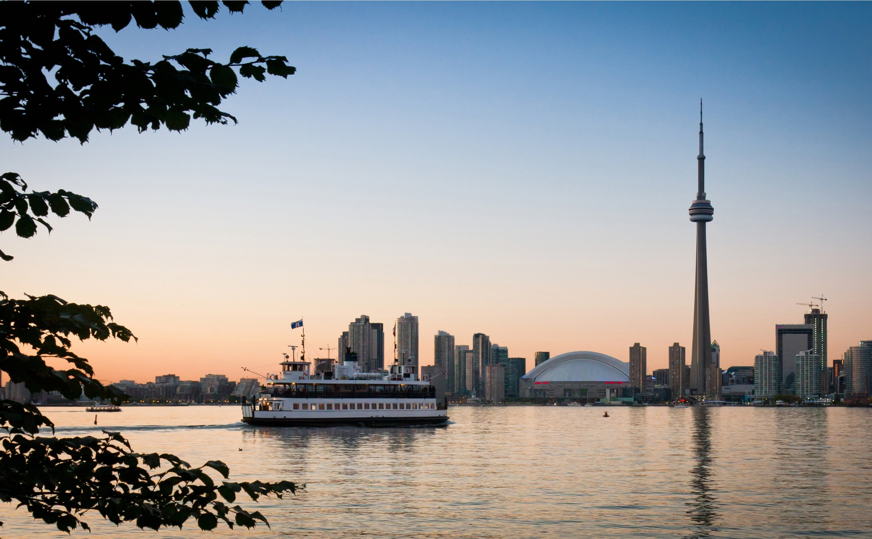 The Toronto Island Ferry transporting passengers back to the "mainland" Toronto, Ontario